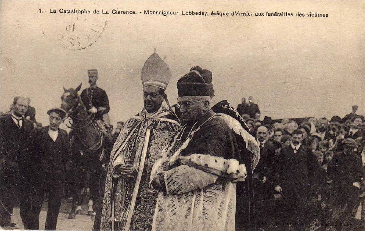 Mine disaster at Divion, Pas-de-Calais, France.